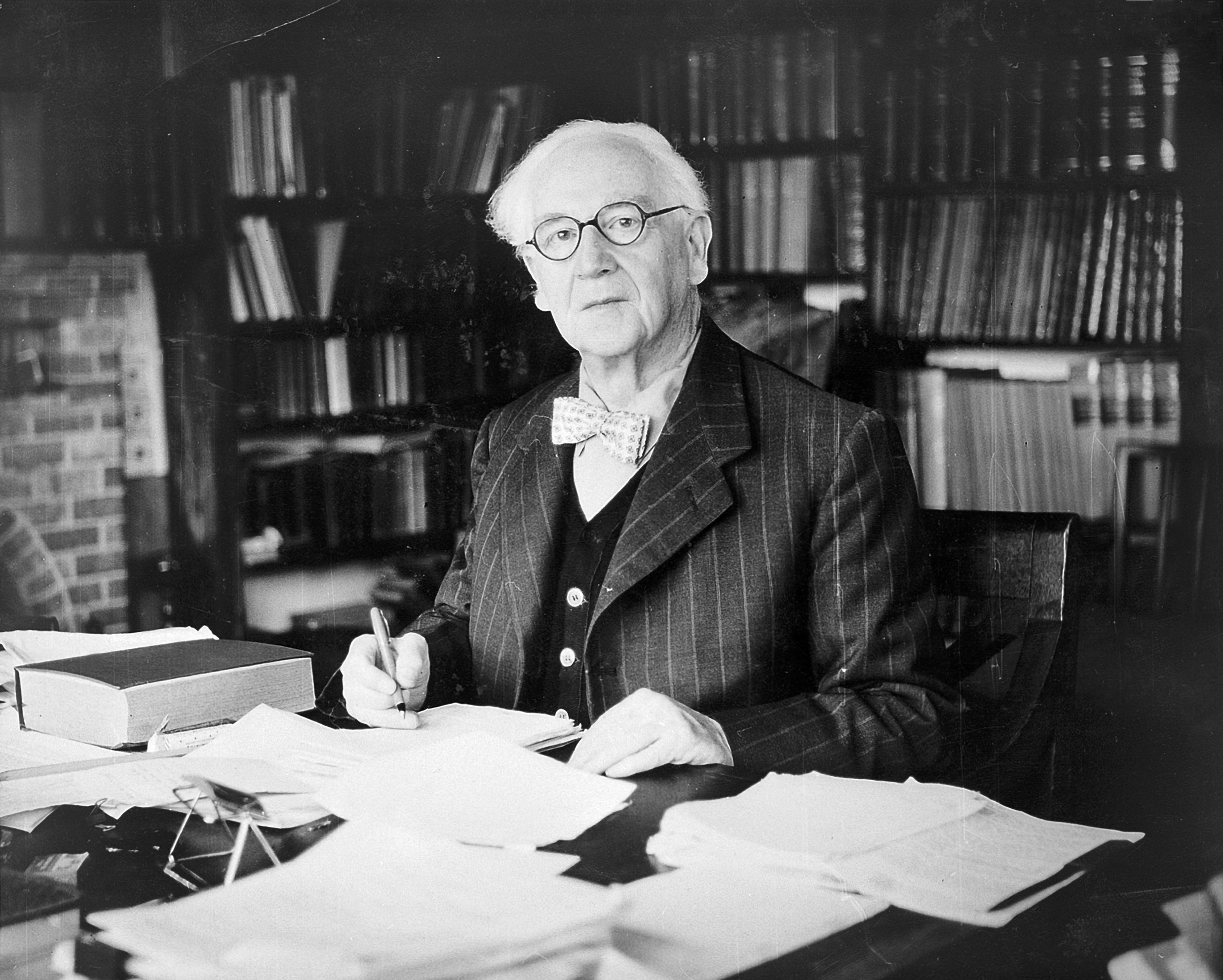 Portrait of Charles J. Singer, half-length seated at desk in library Archives & Manuscripts Keywords: Charles Singer